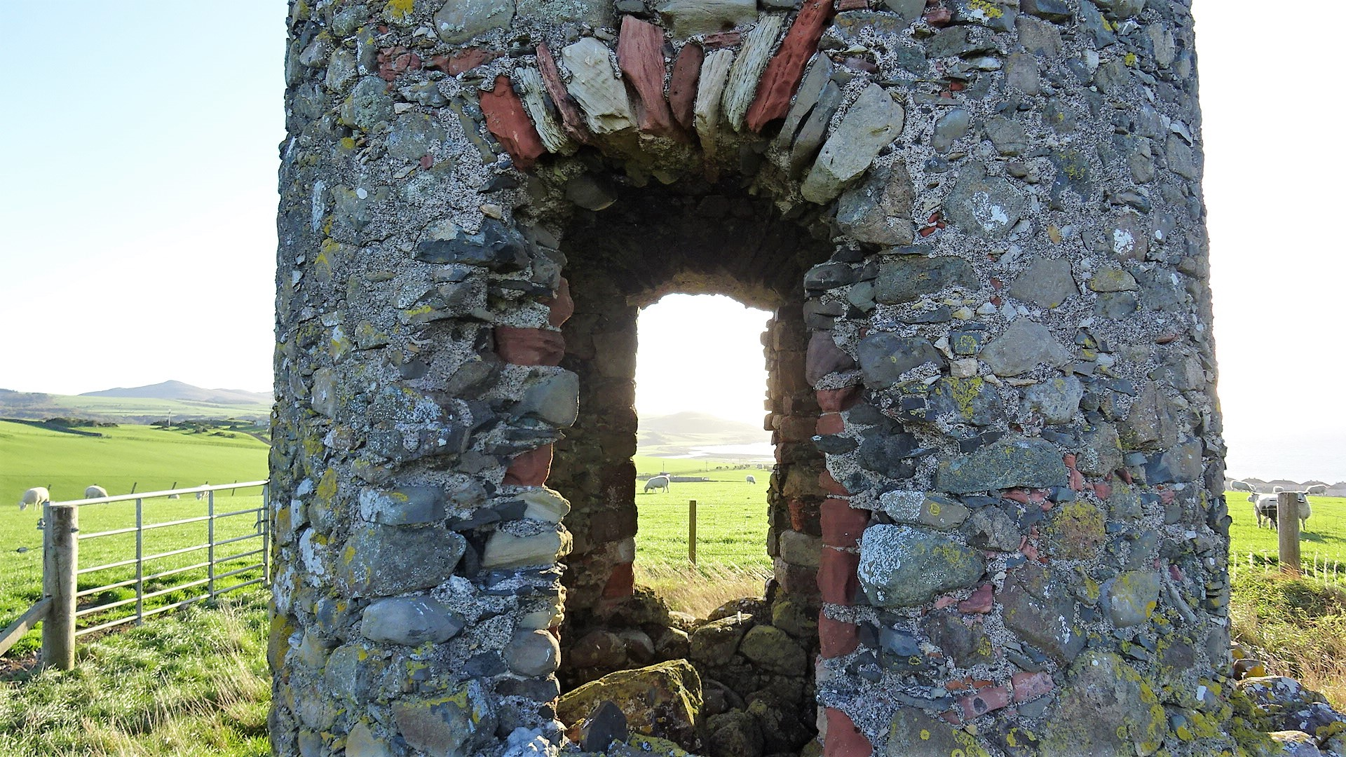 Ballantrae's Vaulted Tower Windmill, Mill Hill, South Ayrshire - north and south doorways.